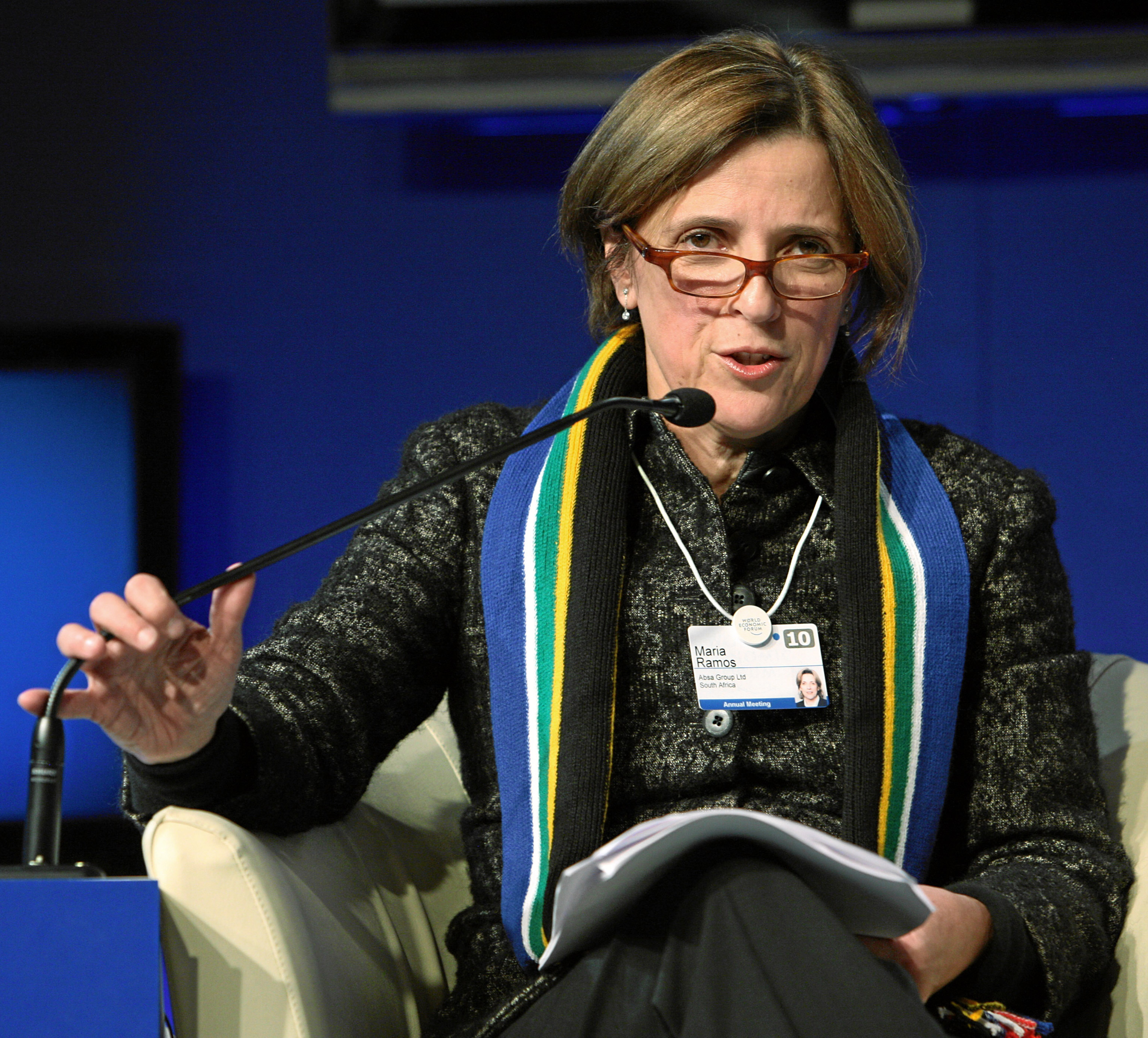 DAVOS/SWITZERLAND, 28JAN10 - Maria Ramos, Group Chief Executive, Absa Group, South Africa; Global Agenda Council on the Future of Africa, speaks during the session 'Rethinking Africa's Growth Strategy' at the Congress Centre at the Annual Meeting 2010 of the World Economic Forum in Davos, Switzerland, January 28, 2010.. . Copyright by World Economic Forum. by Remy Steinegger. . .